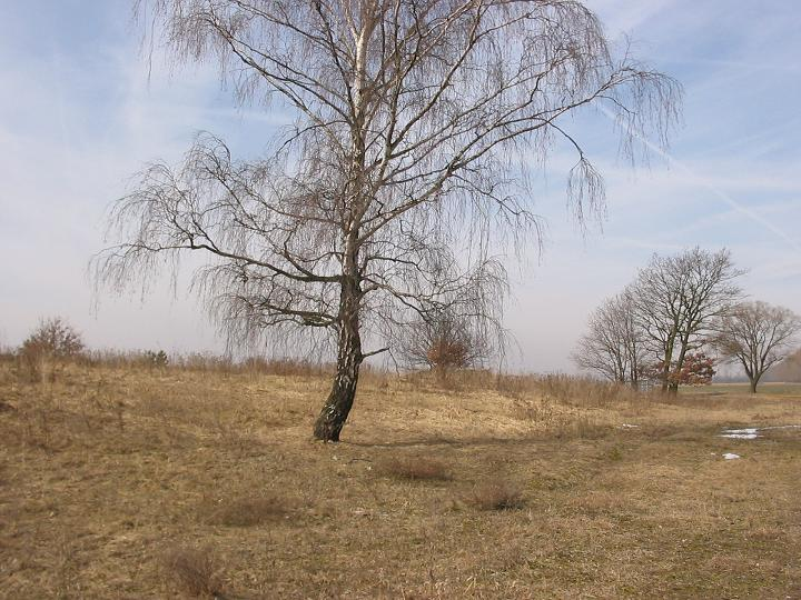 Belziger Landschaftswiesen („territory grassland near the town Belzig“) in Brandenburg, small dune nearby Freienthal